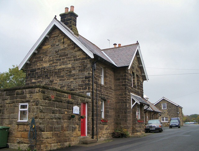 Former station buildings. These buildings, now serving various purposes, used to be the railway station buildings for Robin Hood's Bay.